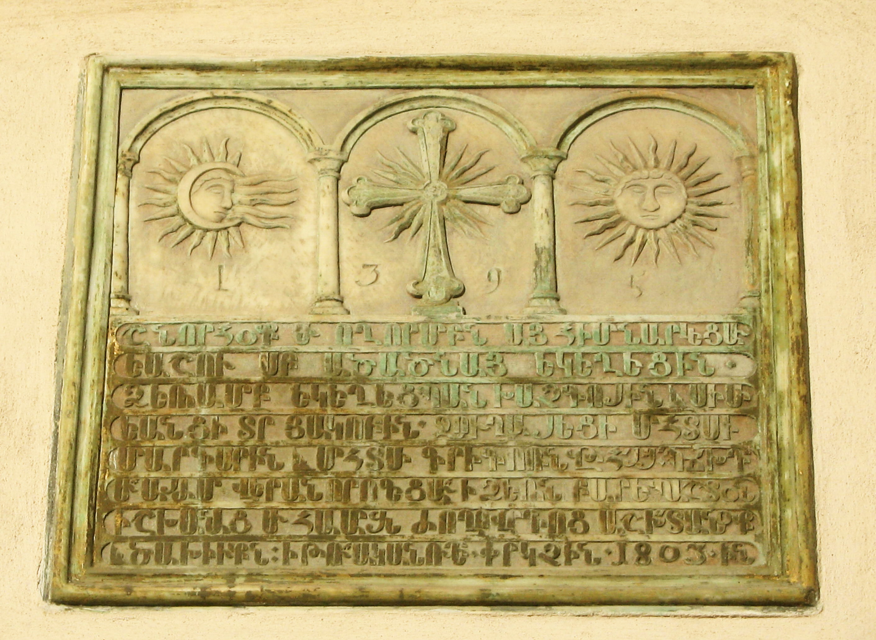 Armenian church in Iași